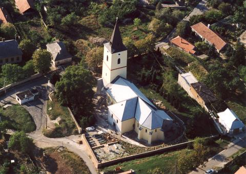 Mád, Hungary, aerialphotgoraphy, Szentháromság római katolikus templom Mádon. This is a photo of a monument in Hungary. Identifier: 2878